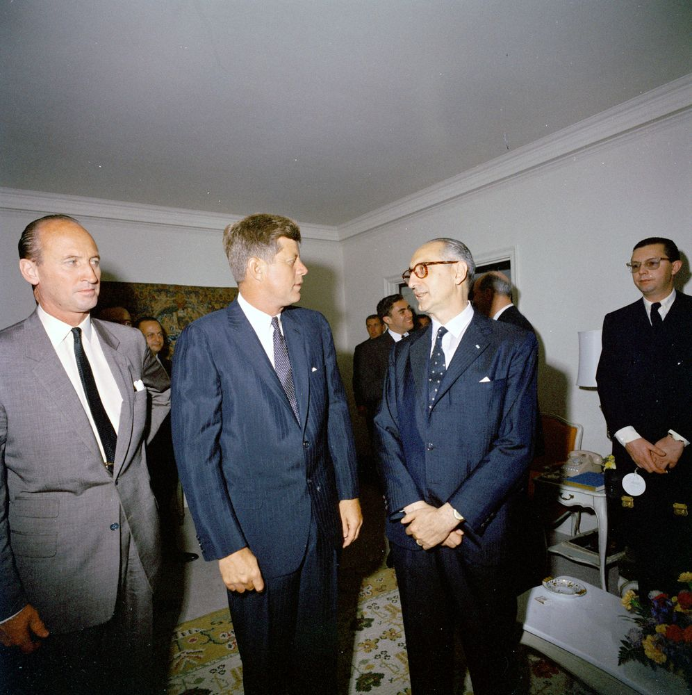 President John F. Kennedy, President Arturo Frondizi of Argentina, and others attend a breakfast conference in the President’s Suite at the Carlyle Hotel, New York City, New York. United States Chief of Protocol Angier Biddle Duke stands left of President Kennedy. Standing in background: Special Assistant to President, Richard N. Goodwin; White House Secret Service agent, Jerry Blaine.